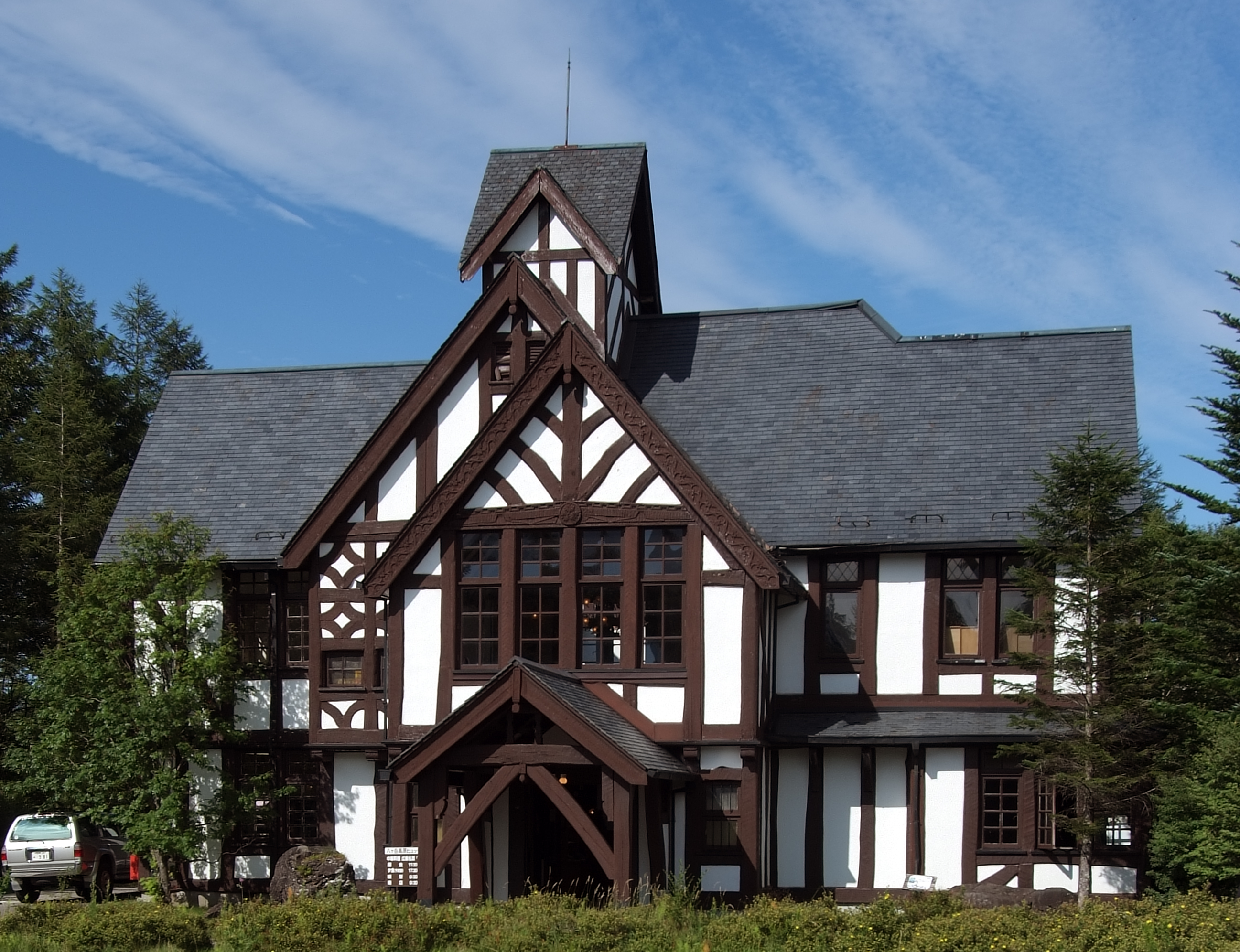 Yatsugatake Kōgen Hutte, at Minamimaki, Nagano, Japan, designed by Jin Watanabe in 1934.